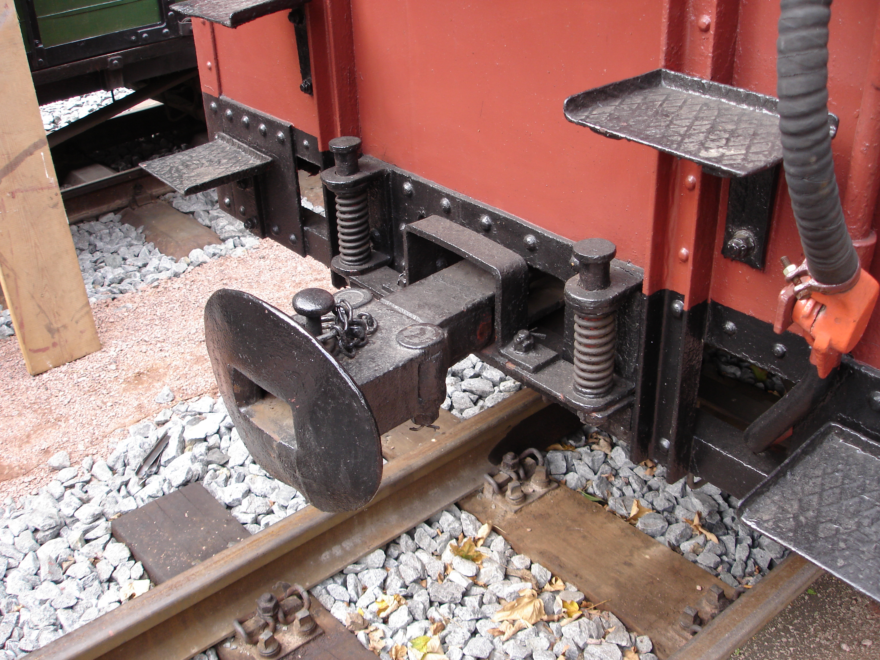 railway coupler by narrow gauge railways of Saxony, Germany